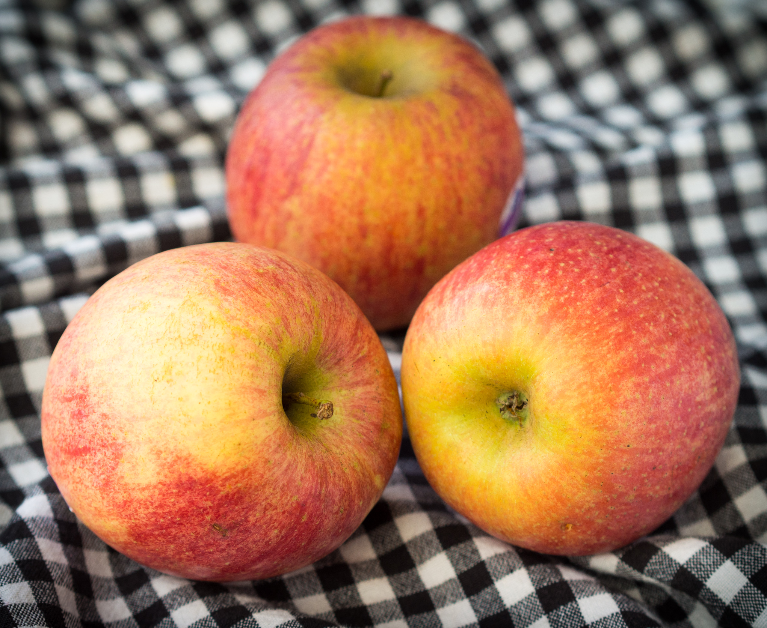 Fuji apples in the Netherlands, imported from Italy